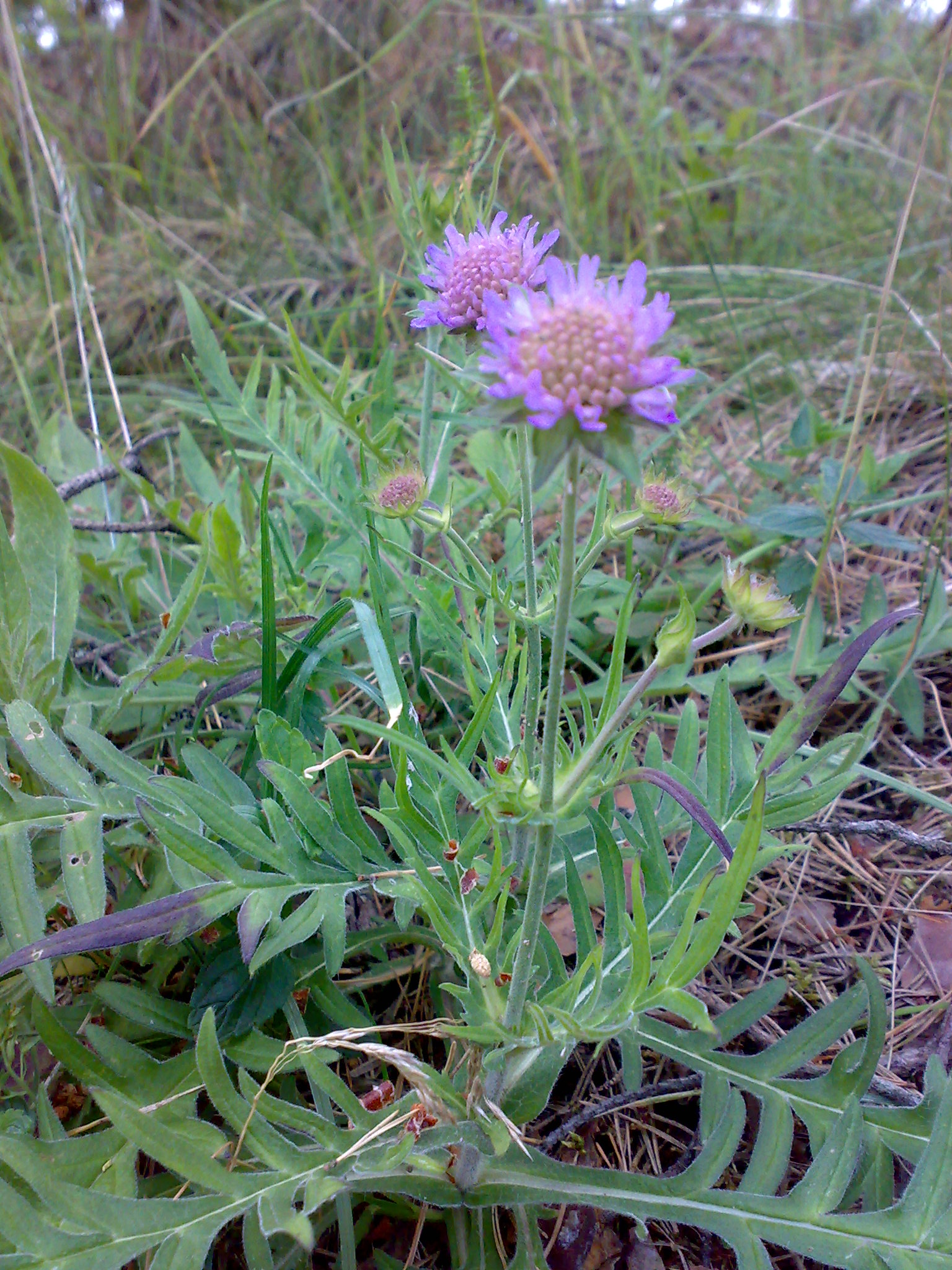 Knautia arvensis